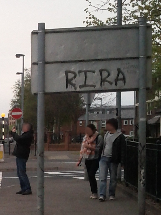 RIRA tag on a road sign, in Derry/Londonderry (Northern Ireland).